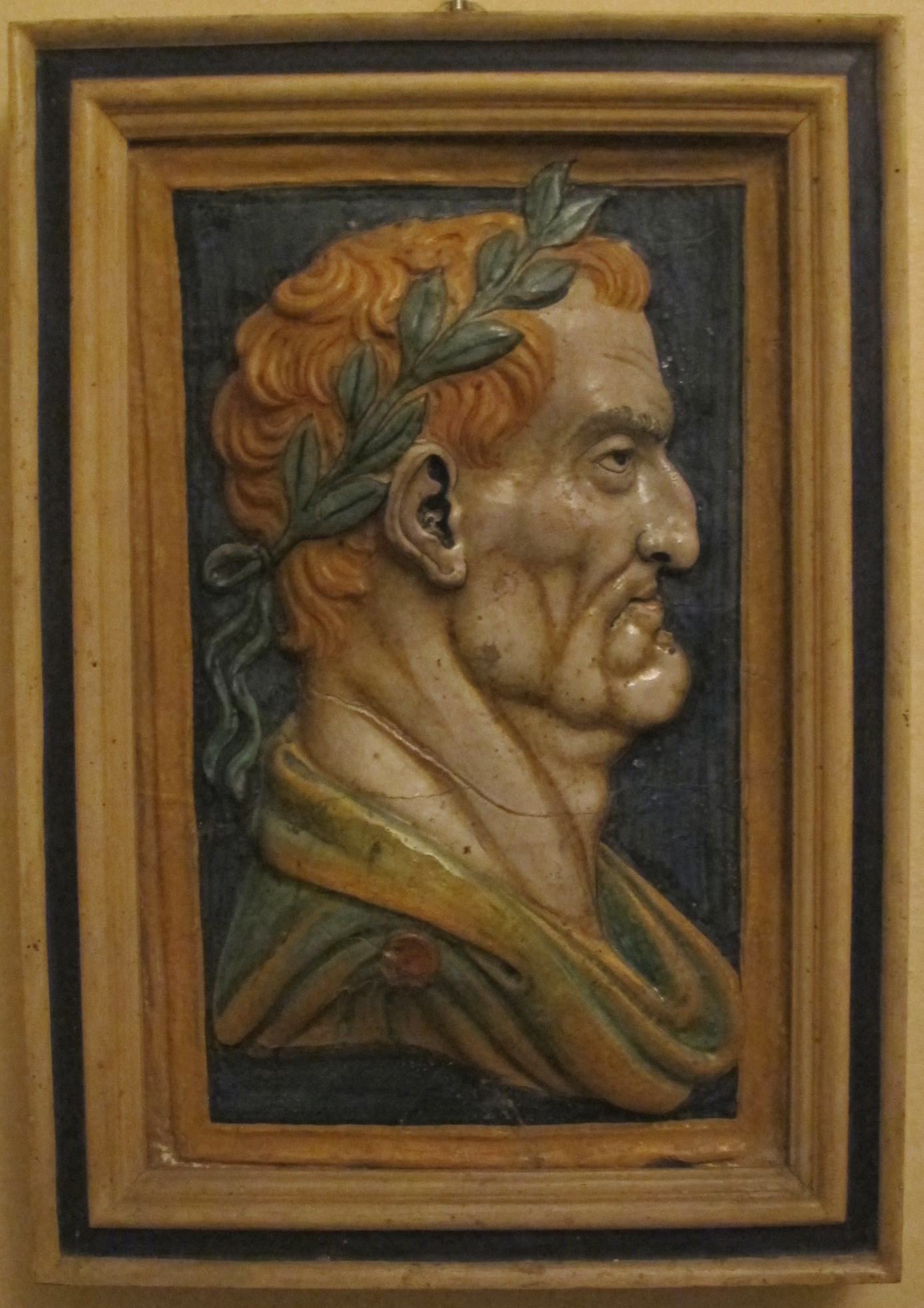 Casa Vasari (Arezzo)